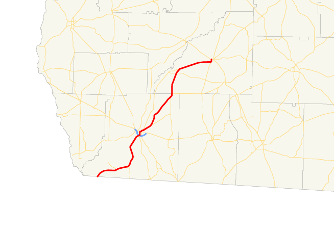 Map of Georgia State Route 97